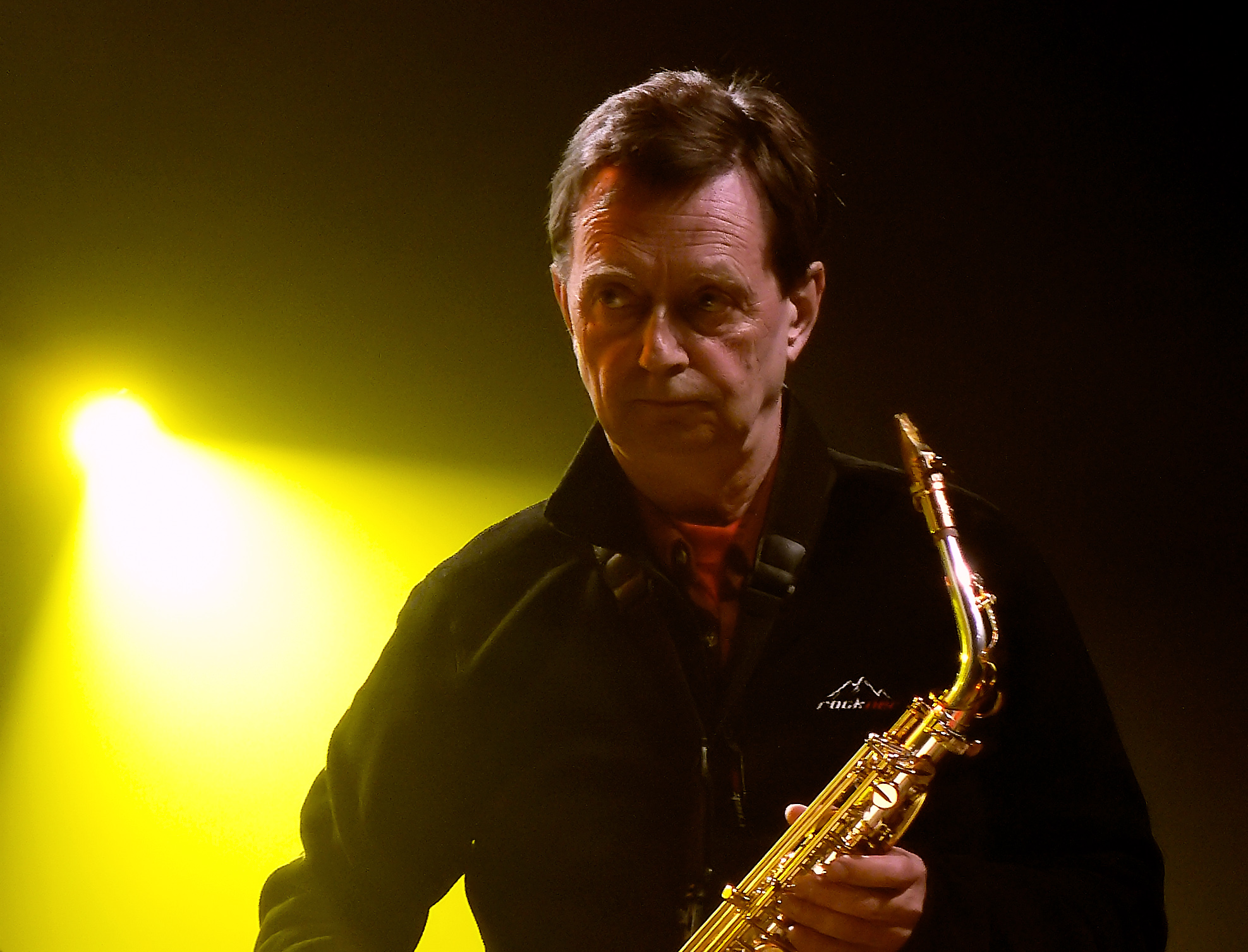 Zbigniew Namysłowski, Polish jazz alto saxophonist, during a concert in Zakopane, 2007.